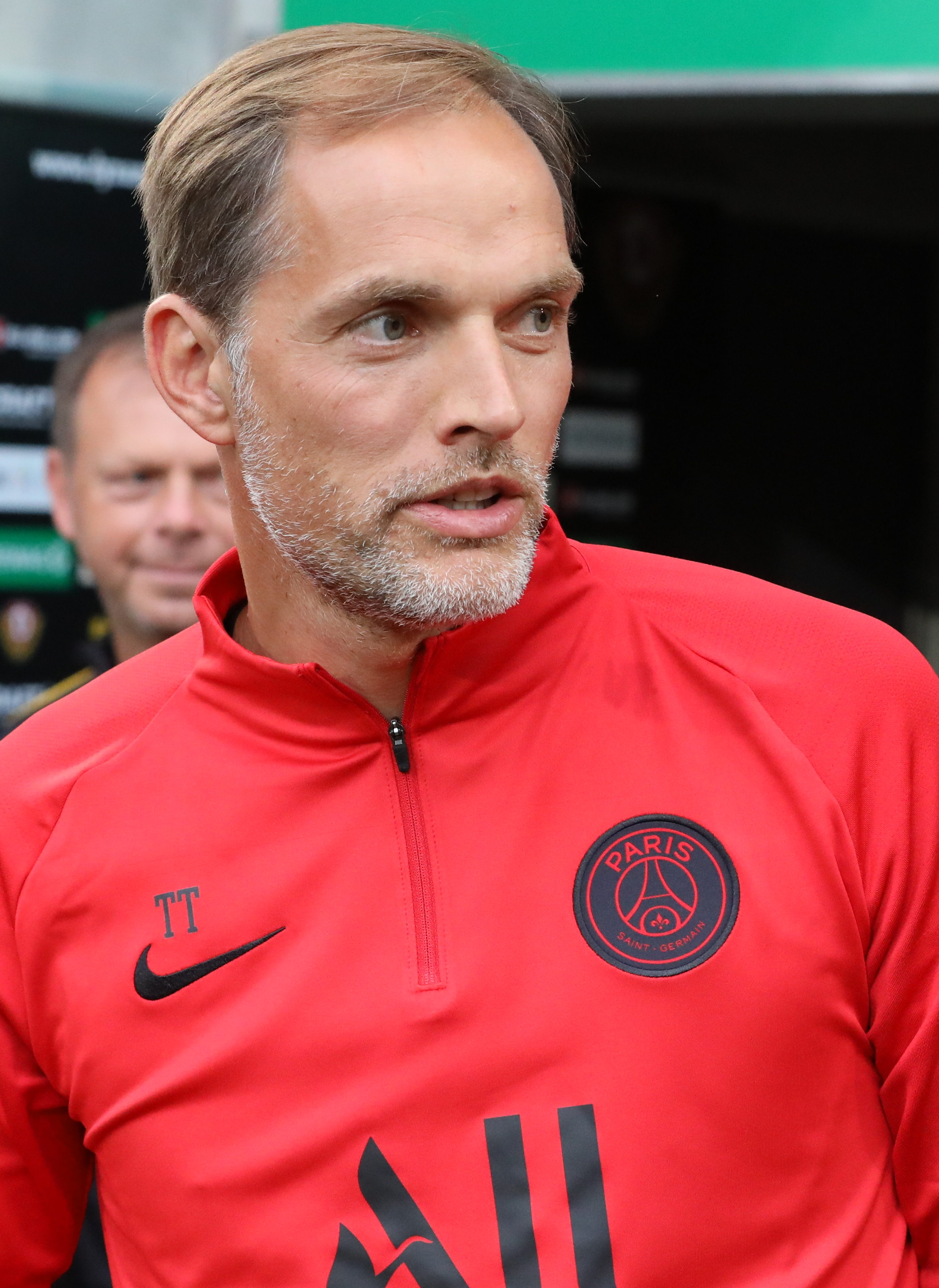 Test game, 17th July 2019: SG Dynamo Dresden vs. Paris Saint-Germain 1:6 (0:3)